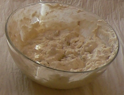 Clam dip